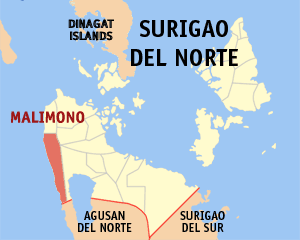 Map of the Surigao del Norte showing the location of Malimono